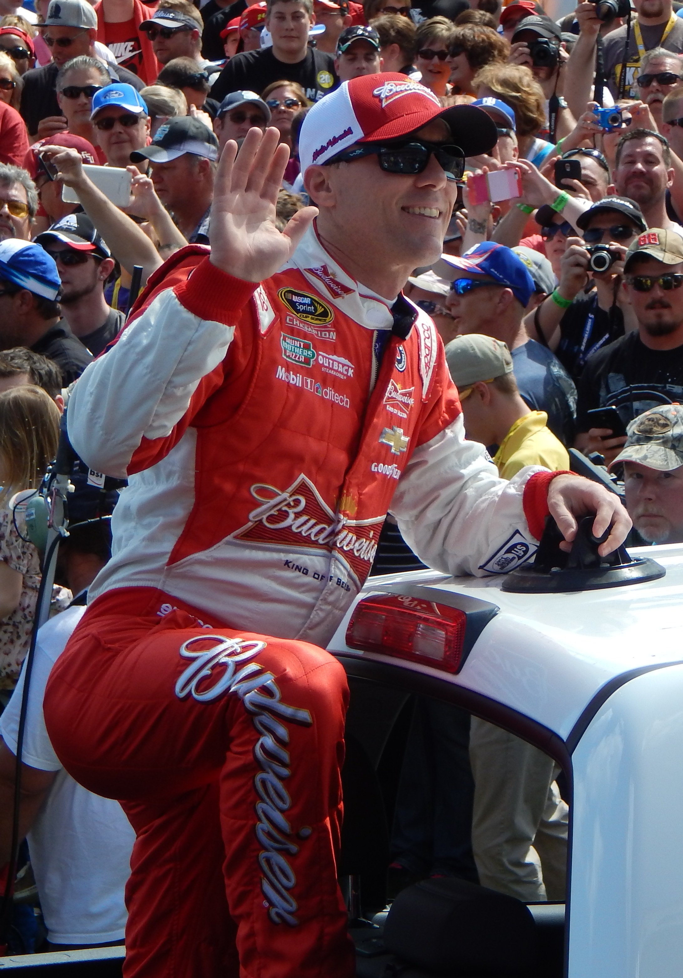 Kevin Harvick riding in the back of a Toyota Tundra during driver introductions.